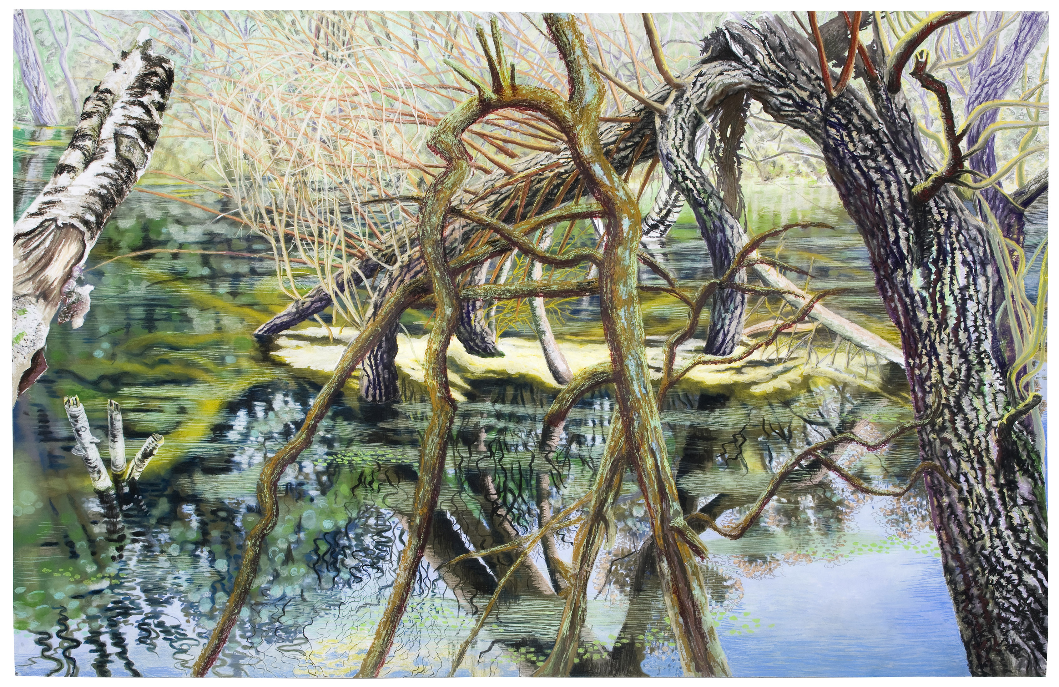 Jacobien de Rooij, Zwaarmoedig gepeinzen (2011)